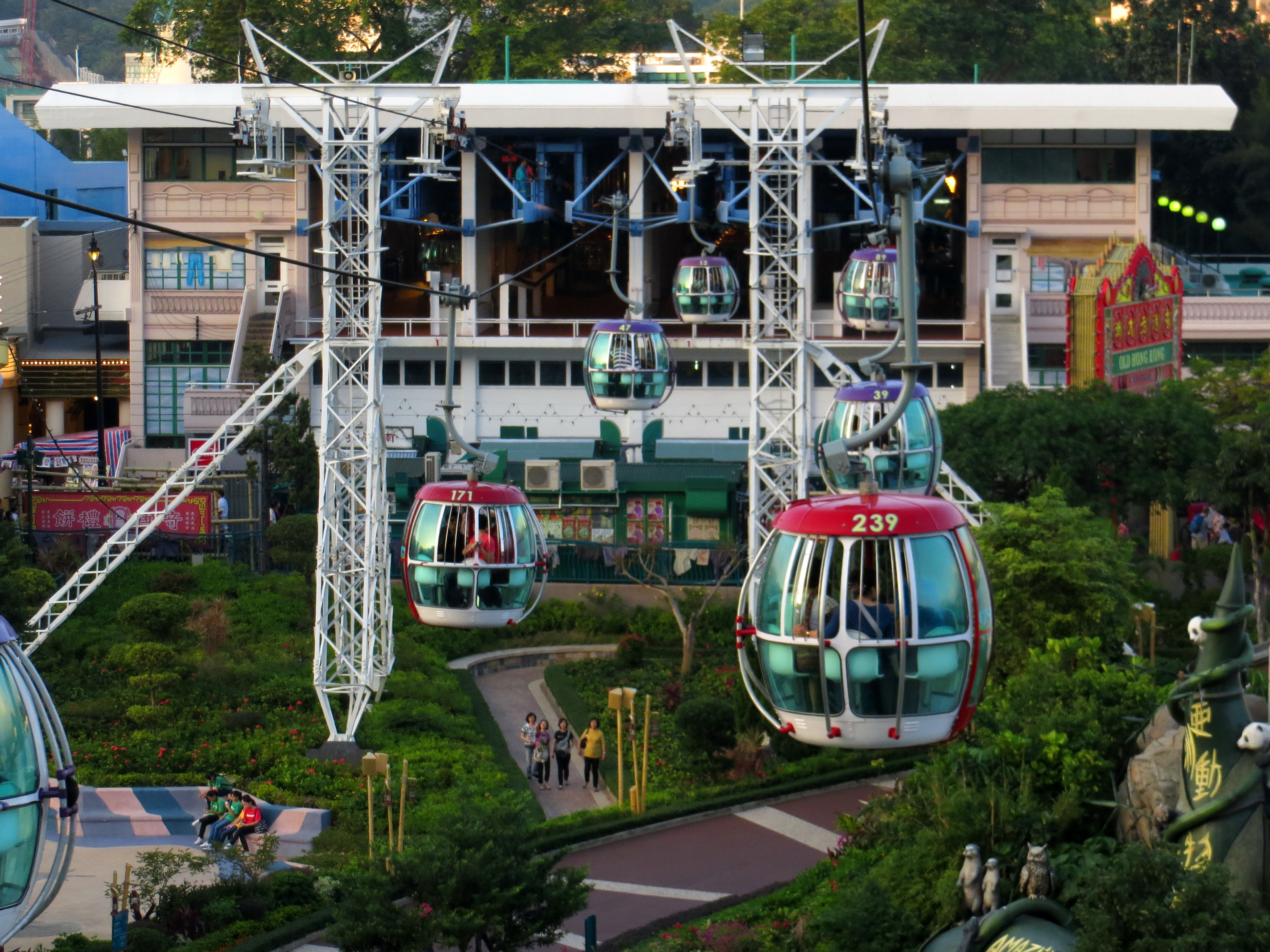 Ocean Park Cable Car and lower cable car terminal, Hong Kong.